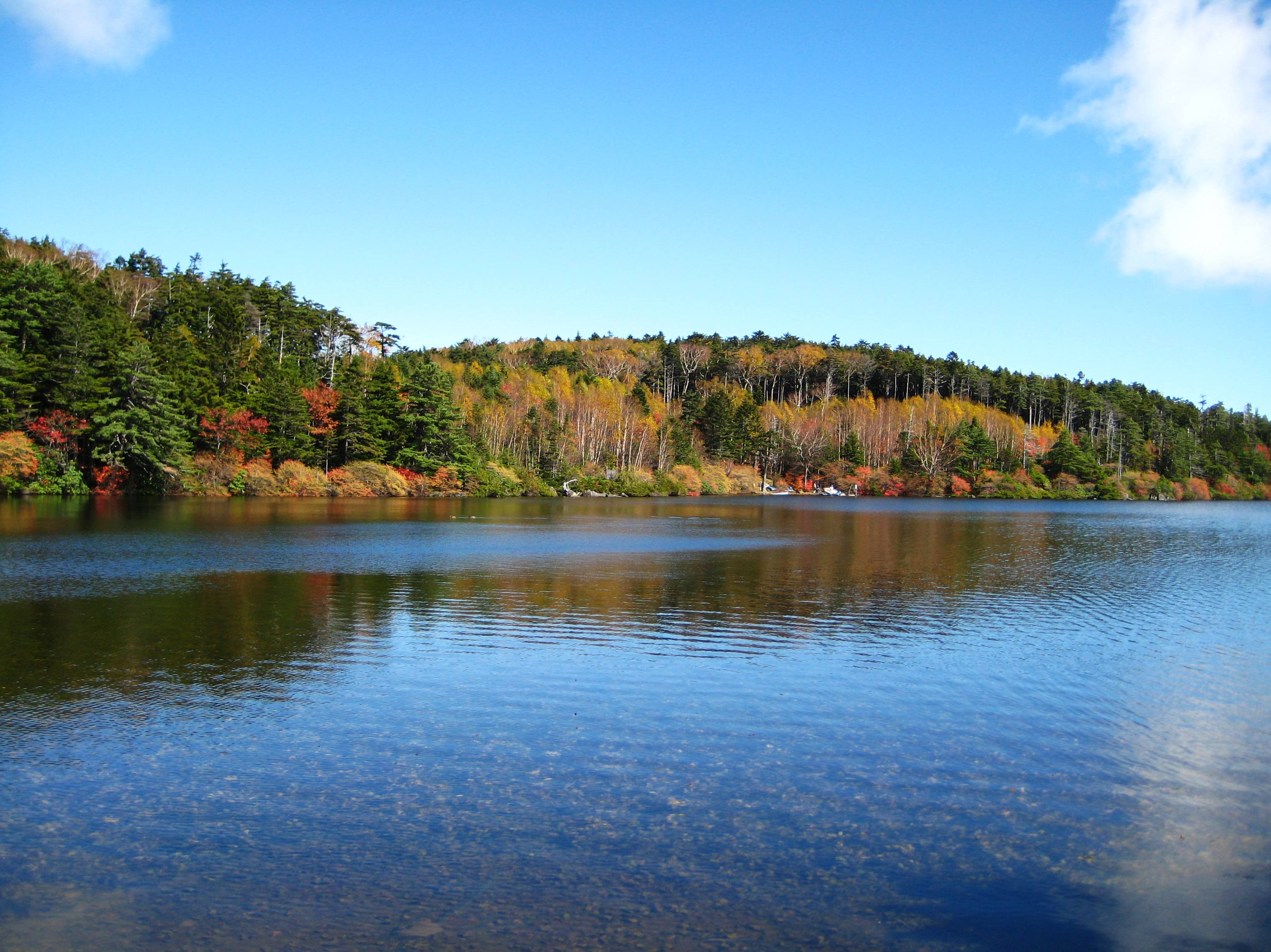 Shirakomanoike.